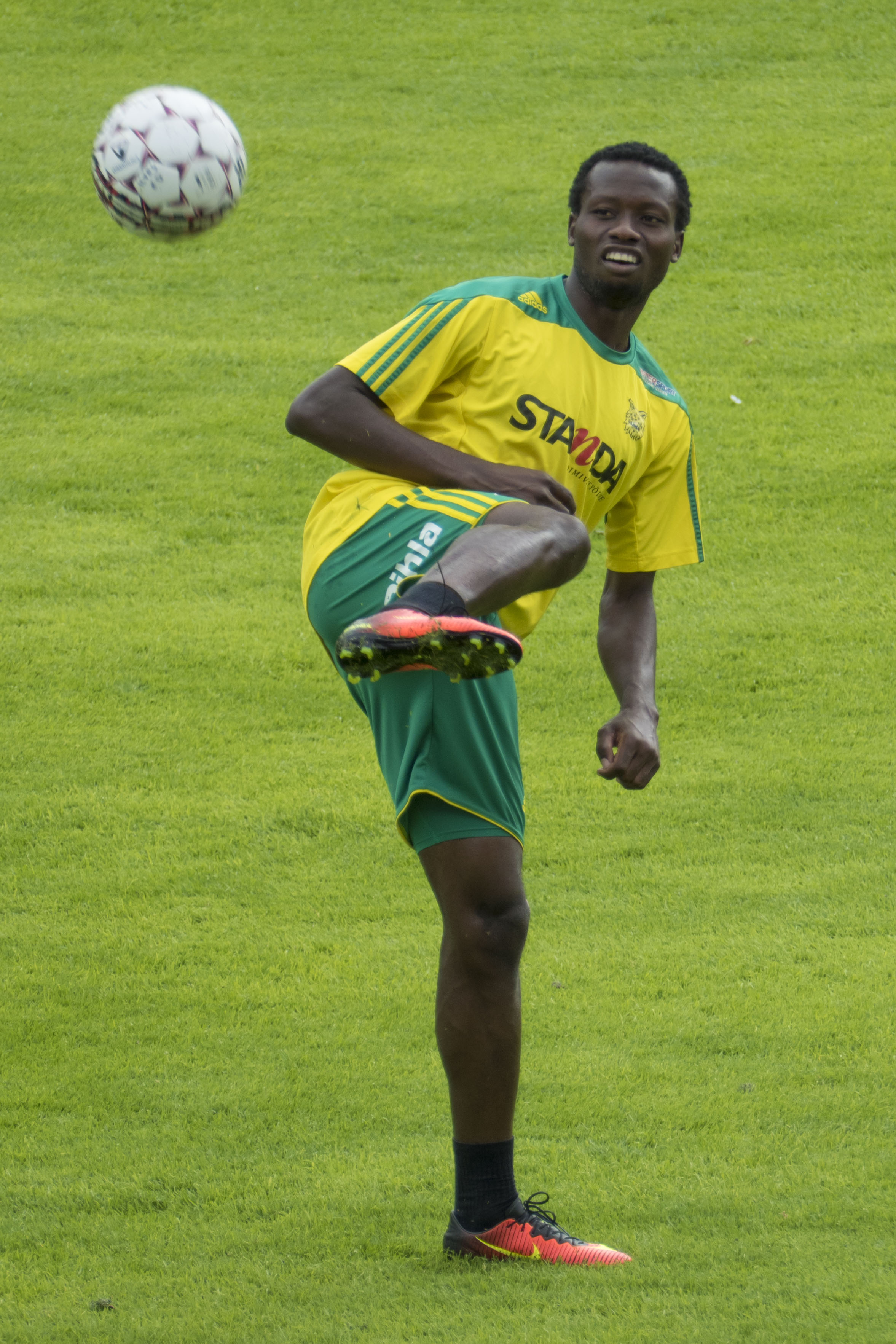 Ugandan footballer Yunus Sentamu of Tampere Ilves warming up before a Veikkausliiga match against Inter Turku in Tampere, Finland, August 2016.